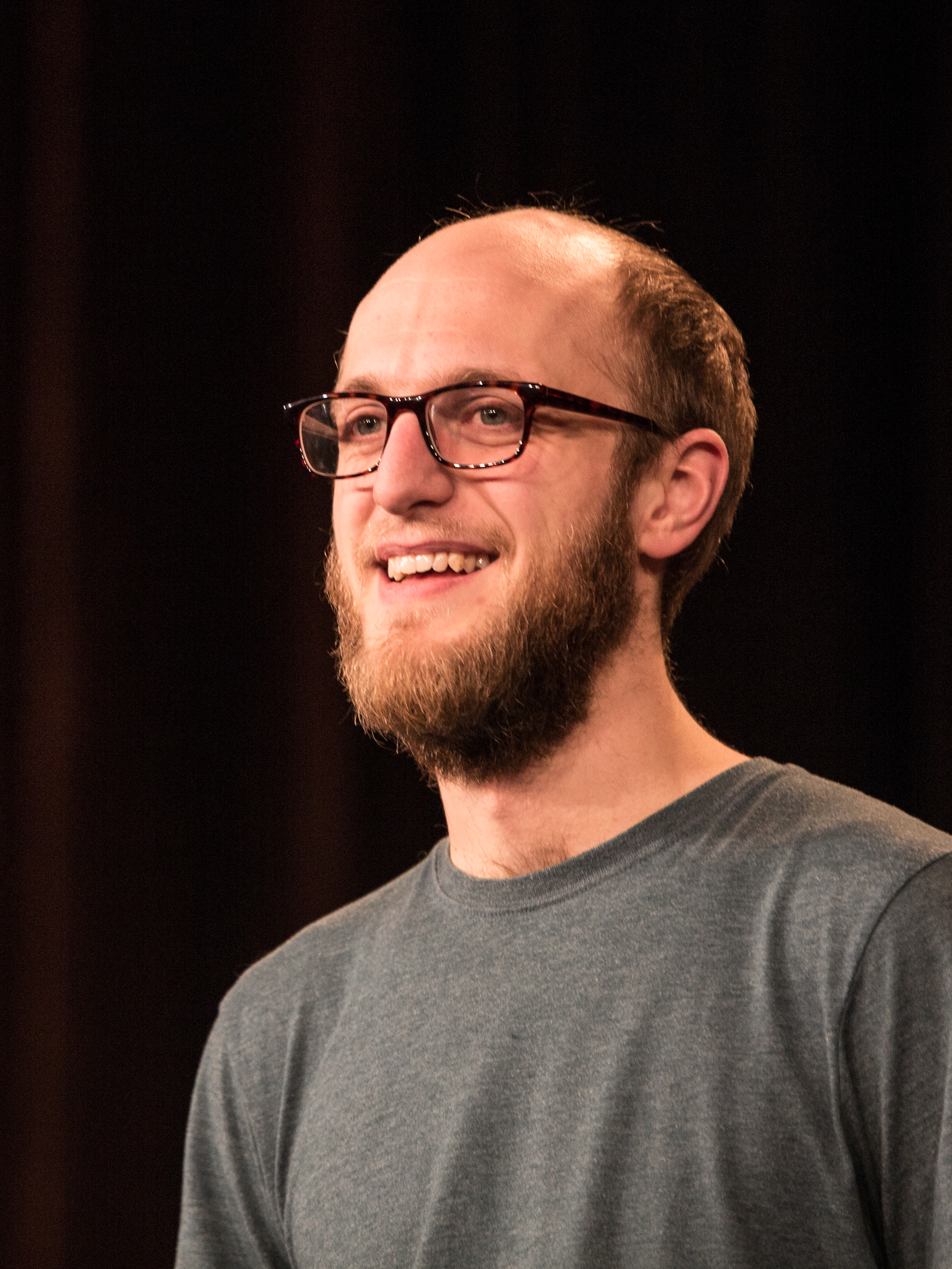 German slam poet Alex Burkhard at the Internationale Kulturbörse Freiburg 2018